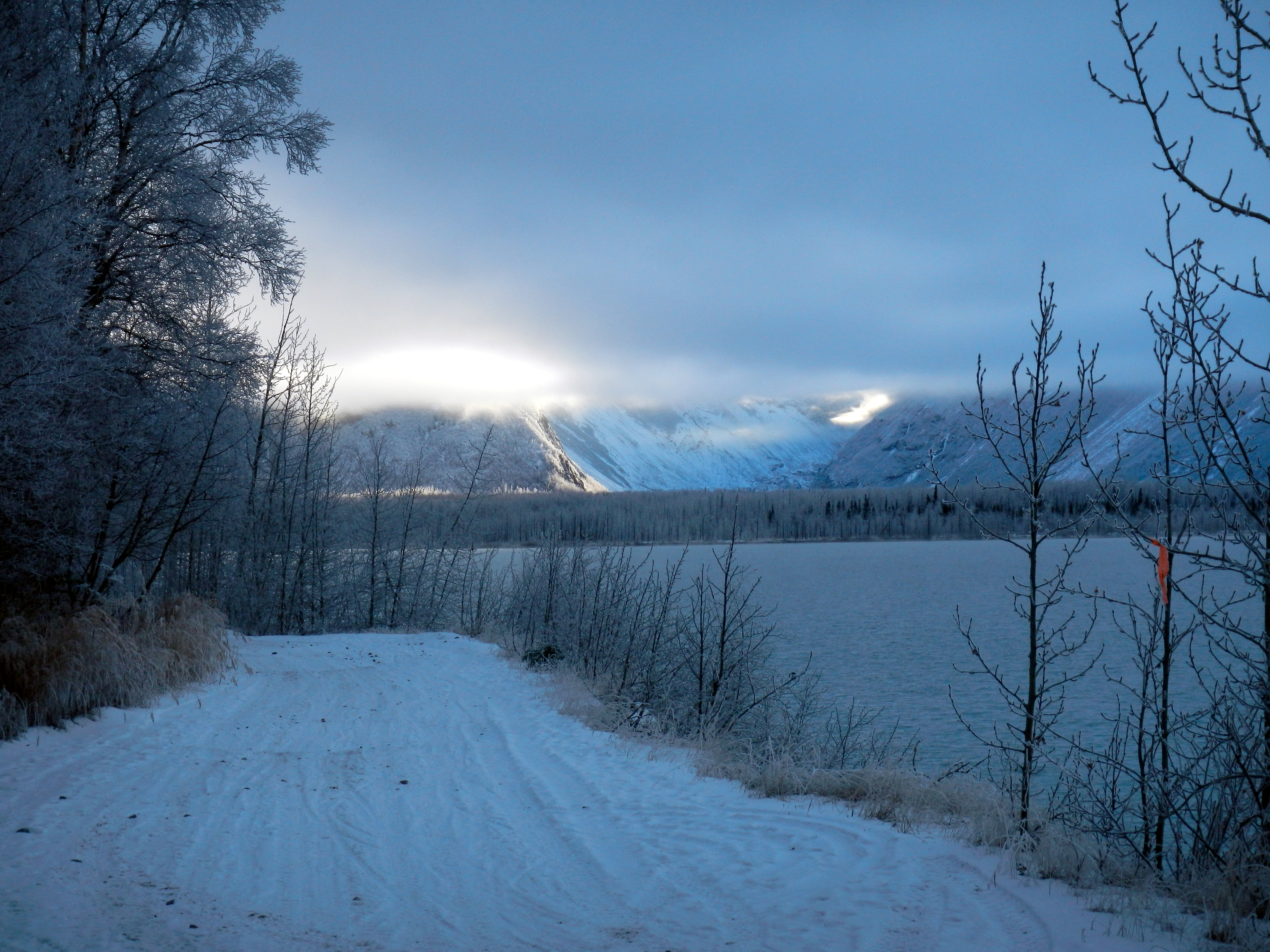 Lakeside Trail along Eklutna Lake in Chugach State Park, Alaska, November 2012